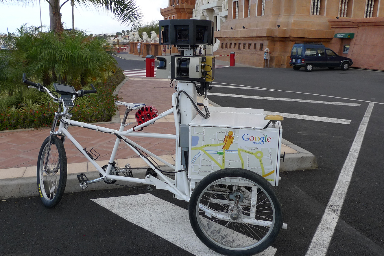 Google Street View trike near Siam Park in Adeje, Tenerife.